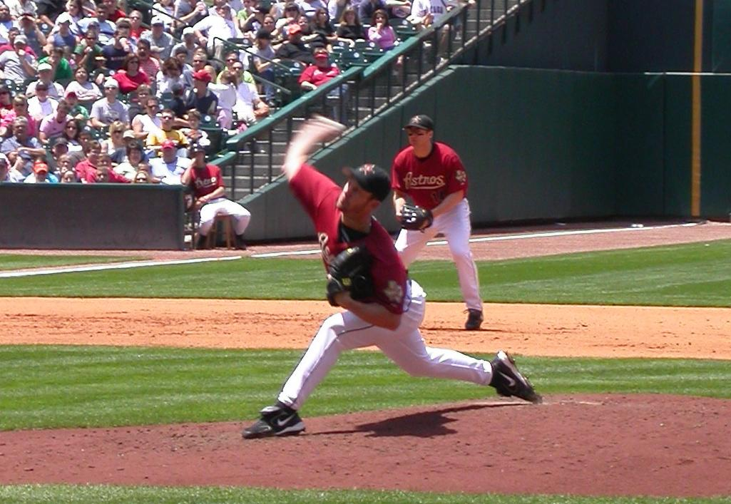 Cropped version of original Roy Oswalt photo. 22:17, 10 August 2006 . . Cjosefy . . 1025×707 (118 KB)